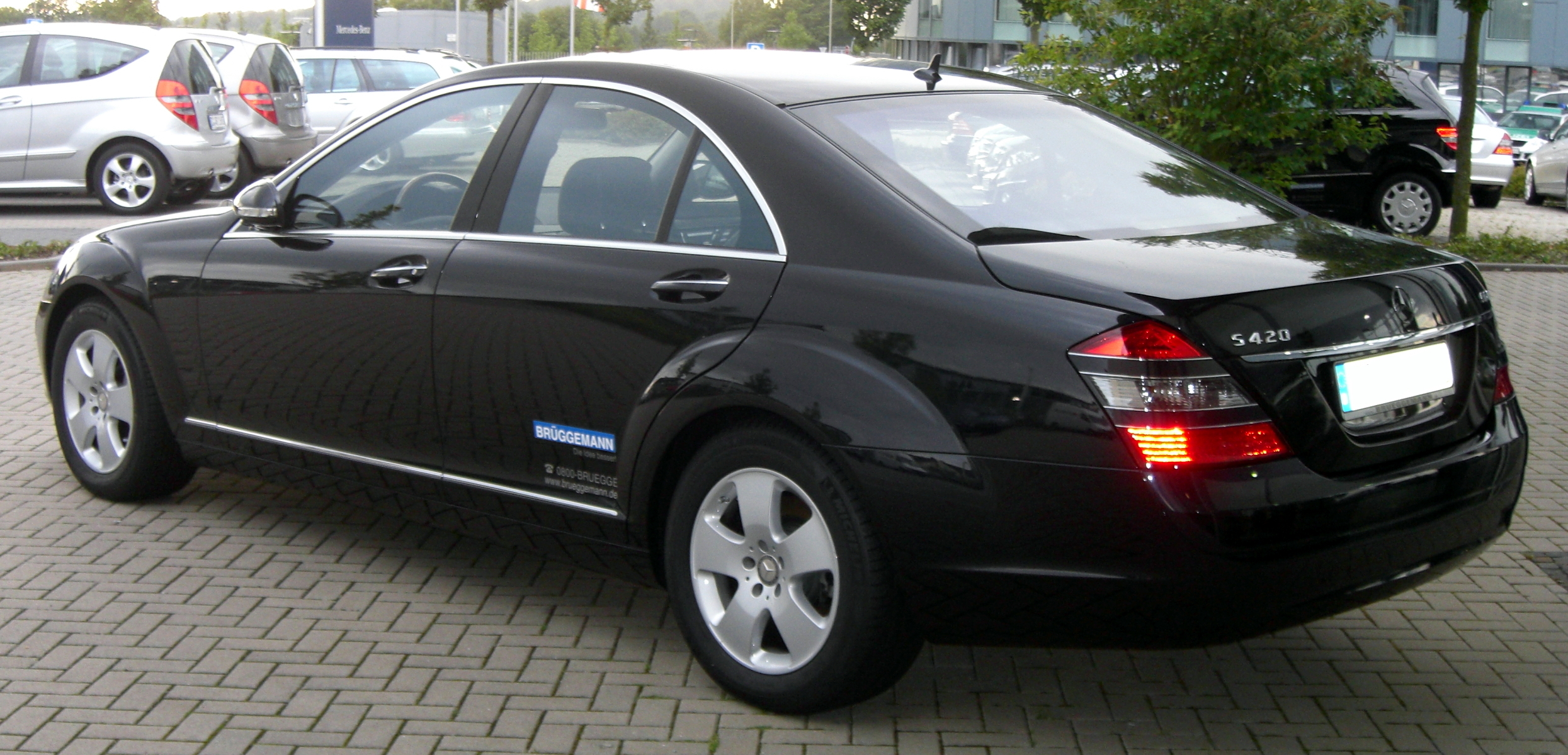 Mercedes S 420 CDI (W221)